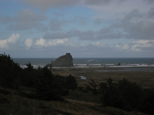 View of Sixes River mouth from above, Oregon Coast, USA